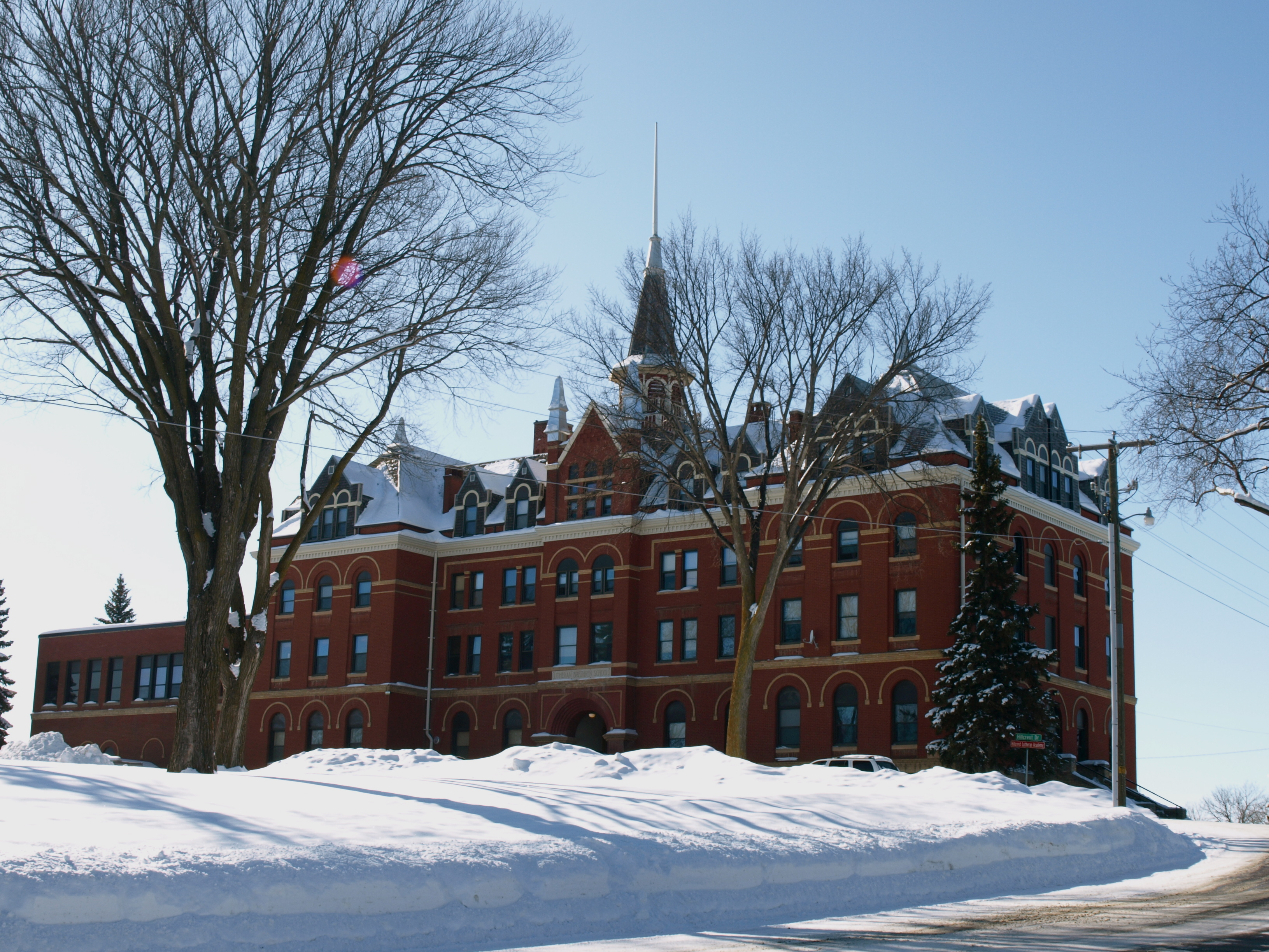 Hillcrest Lutheran Academy is a private Christian junior high and boarding high school in Fergus Falls, MN, and is affiliated with the Church of the Lutheran Brethren of America.